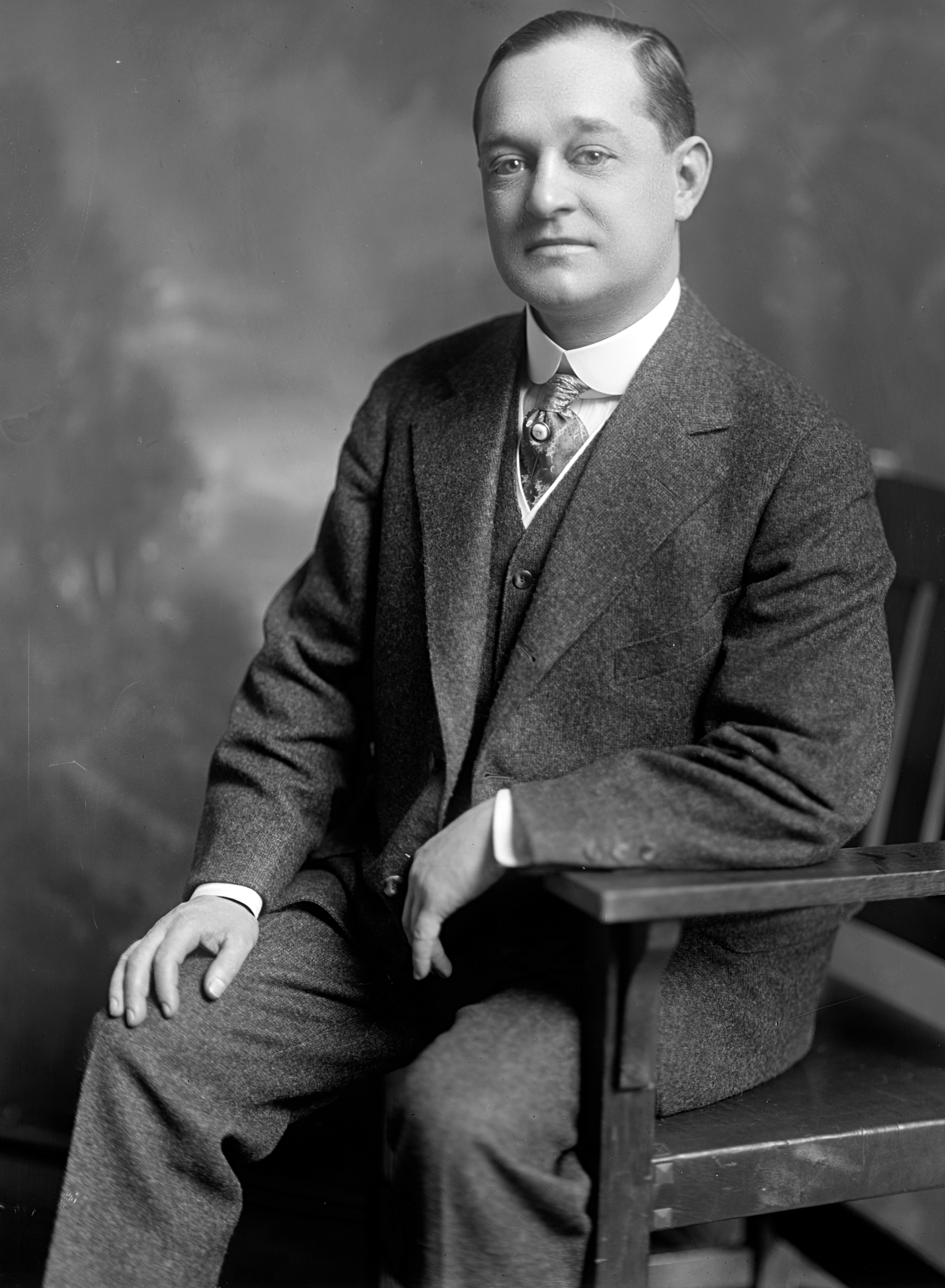 Frederick R. Lehlbach, US Representative from New Jersey